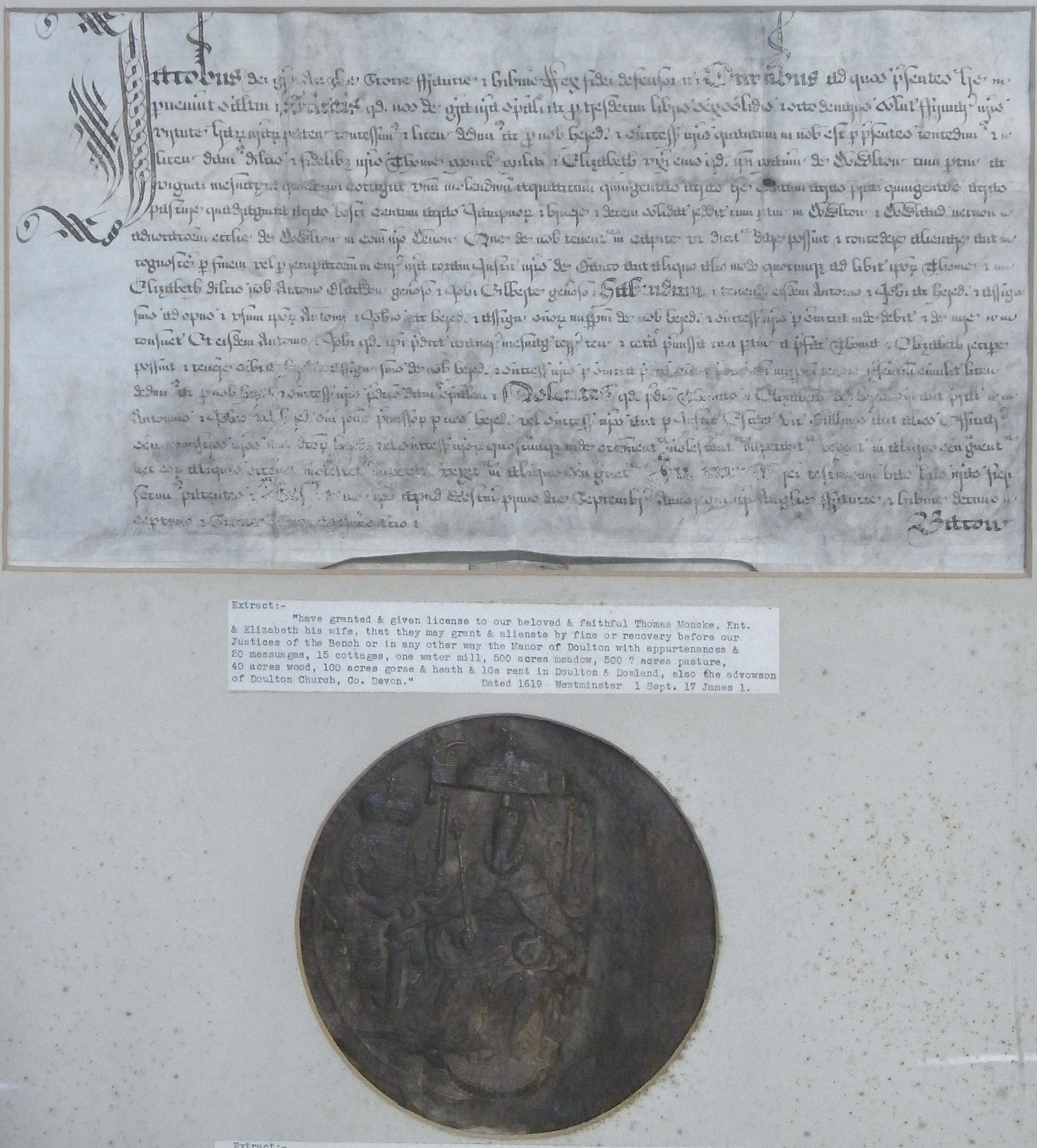 Framed Latin charter with Great Seal of King James I, Dolton Church, Devon. With typed summary as follows: "I have granted & given licence to our beloved & faithful Thomas Monck, knight, & Elizabeth his wife, that they may grant & alienate by fine or recovery before our Justices of the (King's) Bench or in any other way, the manor of Dolton with appurtenances & 20 messuages, 15 cottages, one water mill, 500 acres meadow, 500 (?) acres pasture, 40 acres wood, 100 acres gorse & heath & 10 shillings rent in Dolton & Dowland, also the advowson of Dolton Church, County Devon. Dated at Westminster, 1 September 17 James I" (1619) This relates to Thomas Moncke (born 1570) of Potheridge in the parish of Merton, Devon, and his wife Elizabeth Smith, daughter of George Smith of Madworthy, near Exeter. He was the father of George Monck, 1st Duke of Albemarle (1608-1670)